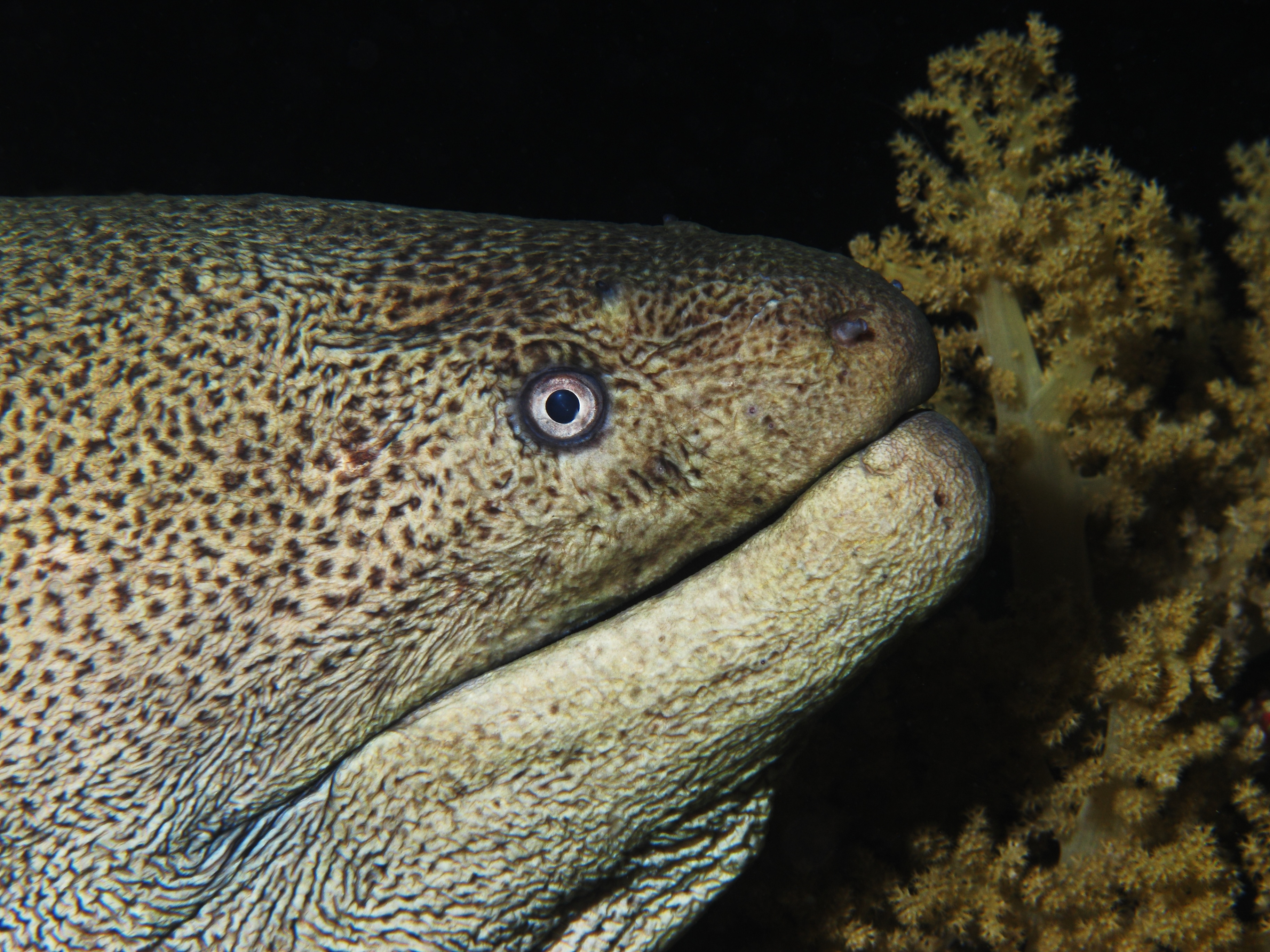 Giant moray (Gymnothorax javanicus) at el Fanous reef (near Hurghada, Egypt)